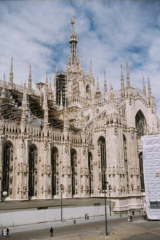 The Duomo (Cathedral) in Milan (Italy).